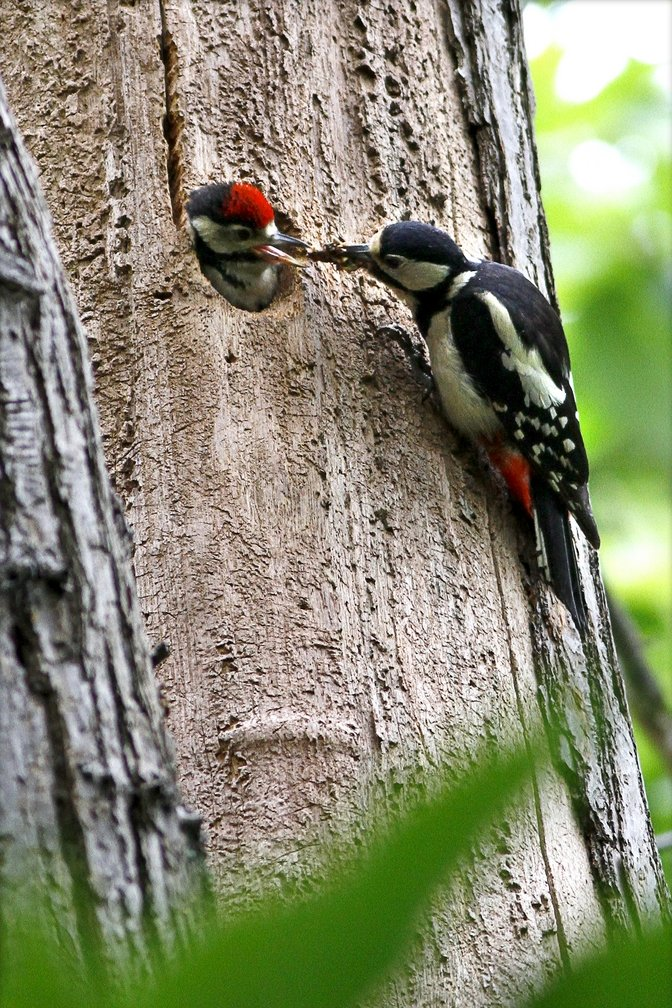 A female Great Spotted Woodpecker feeding a chick in London, England.